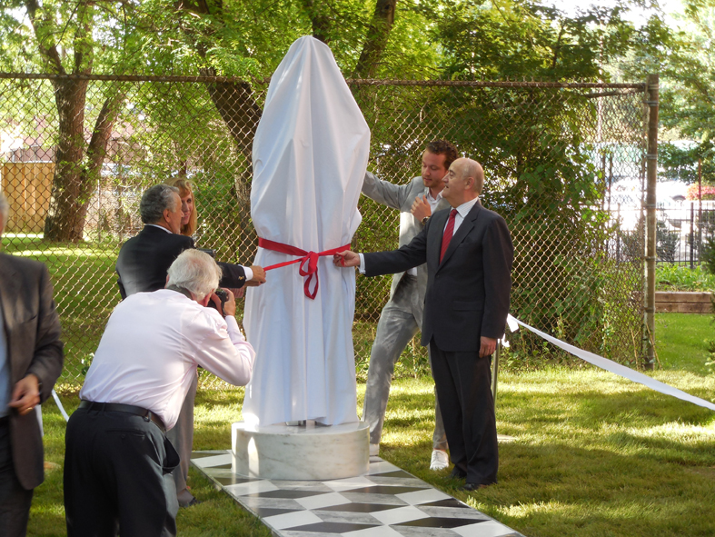 From left to right: Consigilo de Nino, Columbus Centre Chair Karin Manarin, Artist Harley Valentine, MP Julian Fantino.